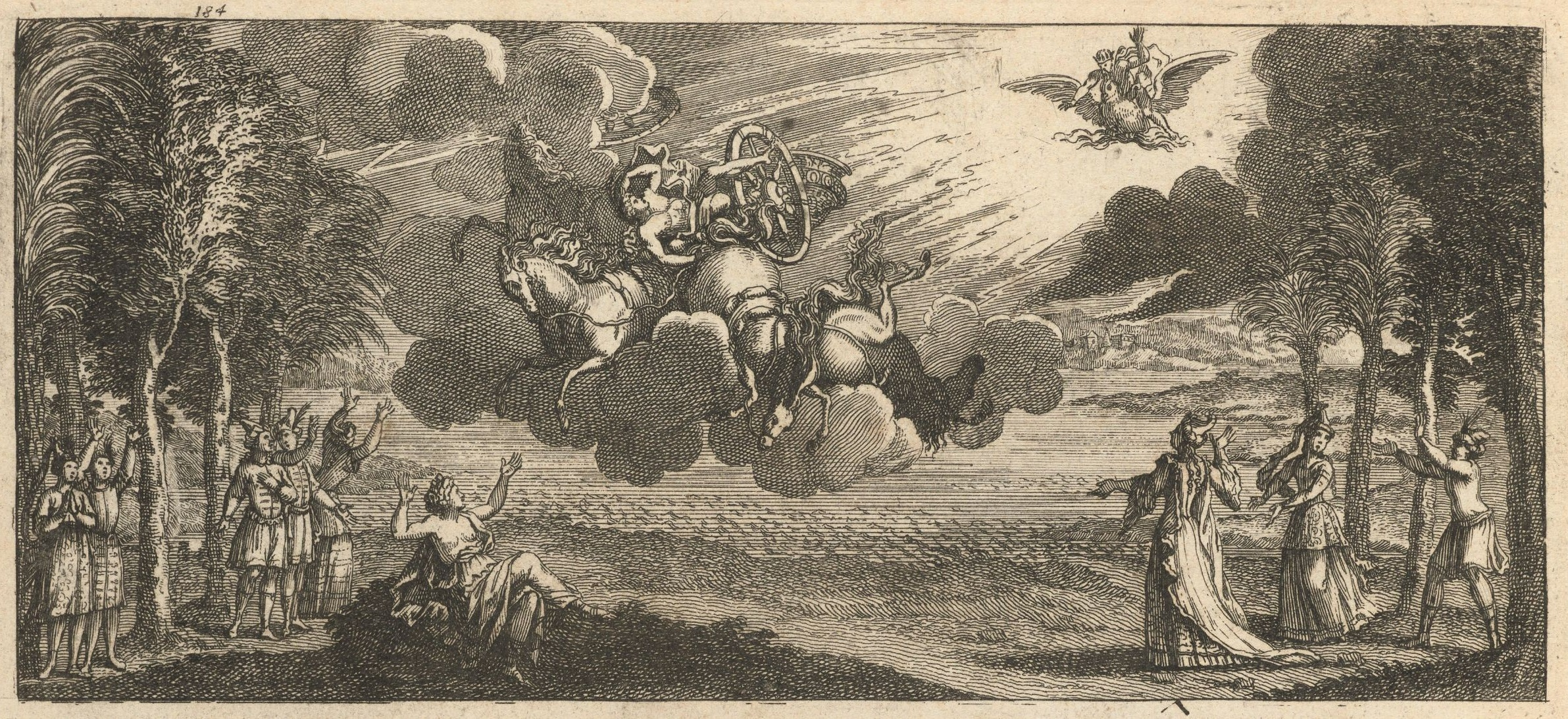 Engraving on page 184 from Phaëton: tragedie, 1709, by Jean-Baptiste Lully (1632-1687). M1500.L95 P5 1709, Houghton Library, Harvard University